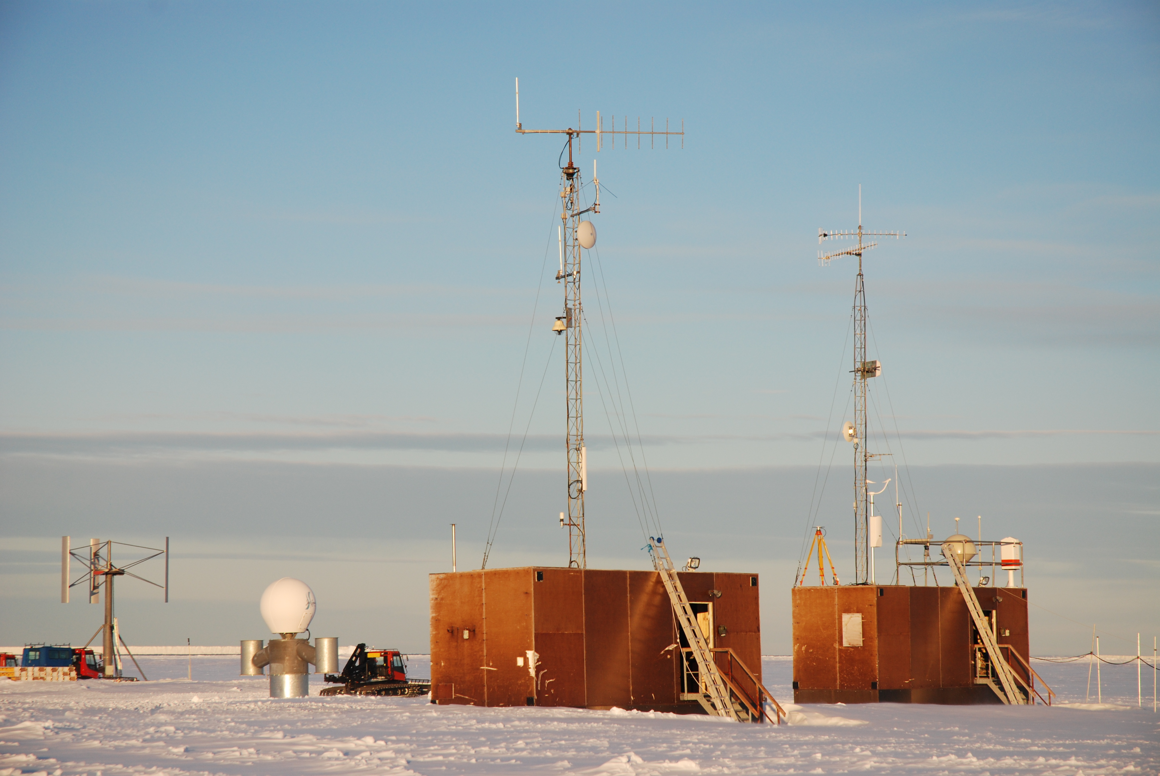 German Antarctic research base Neumayer Station II, located in Dronning Maud Land, Antarctica, was operated by the Alfred Wegener Institute Helmholtz Centre for Polar and Marine Research (AWI) from 1992 to 2009.